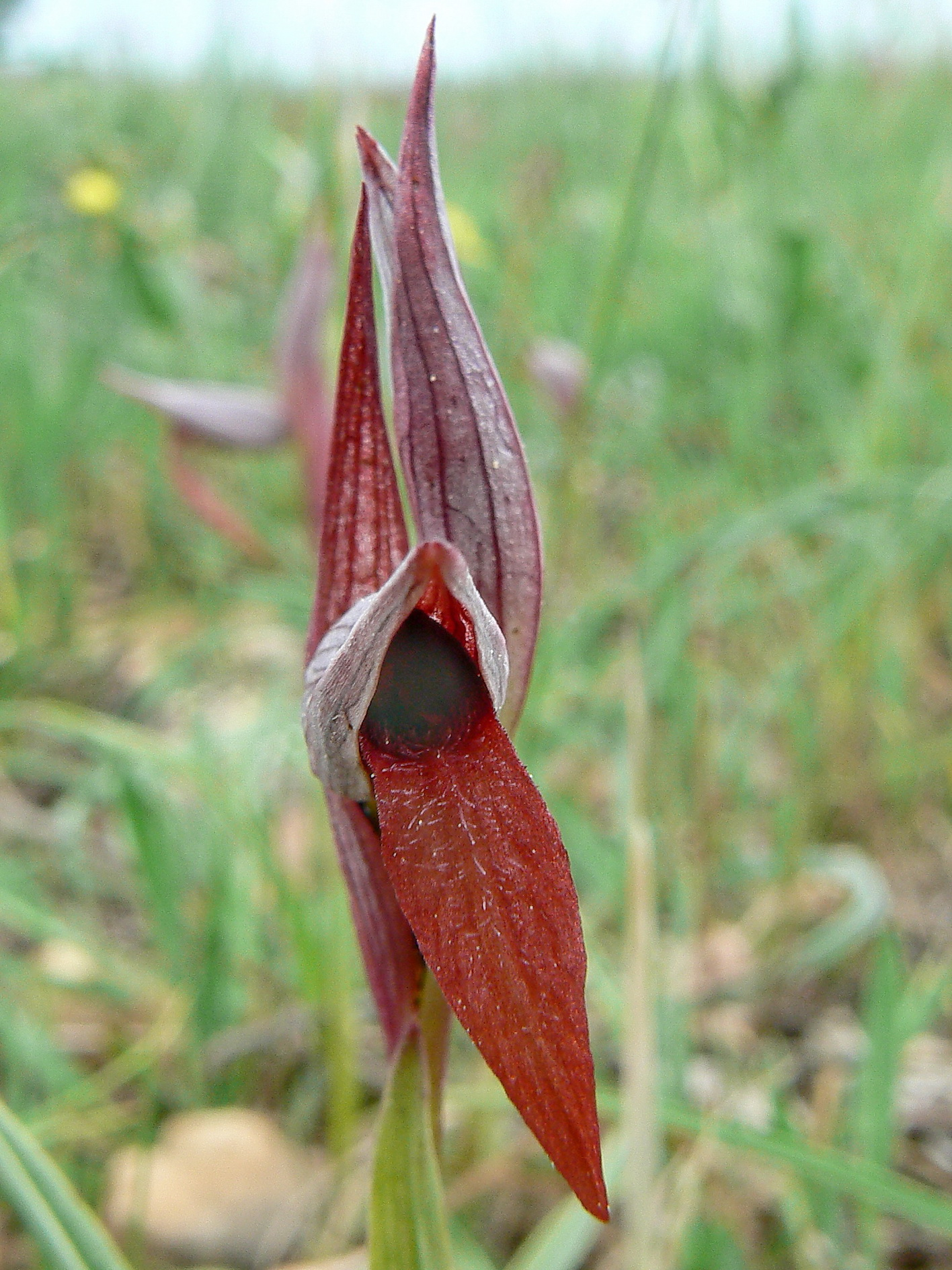 Serapias strictiflora, Plaine des Maures, Var, France. Detail of flower.